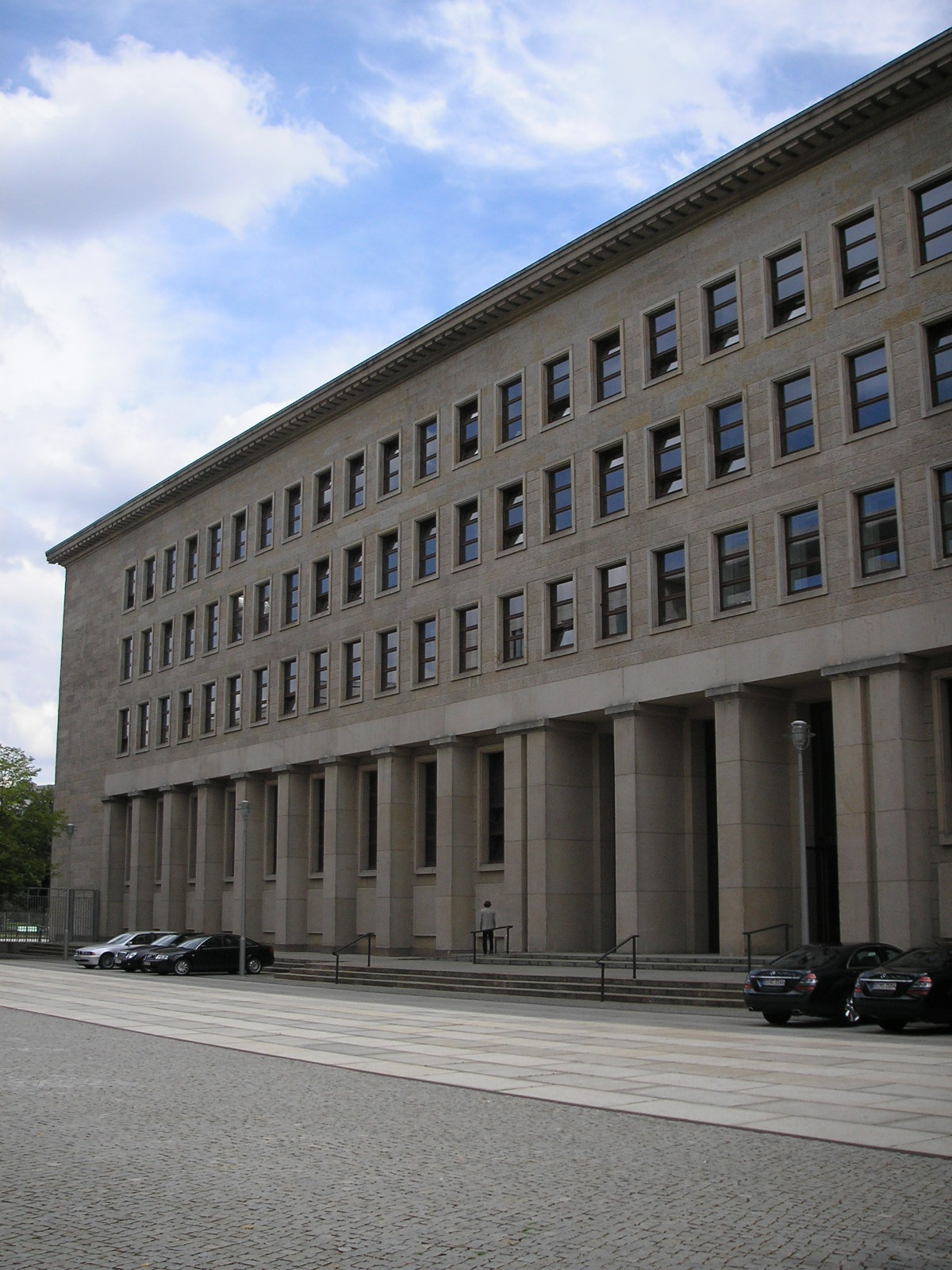 Main court of the Foreign Office in Berlin, the so-called Protokollhof in between the new and the old building.